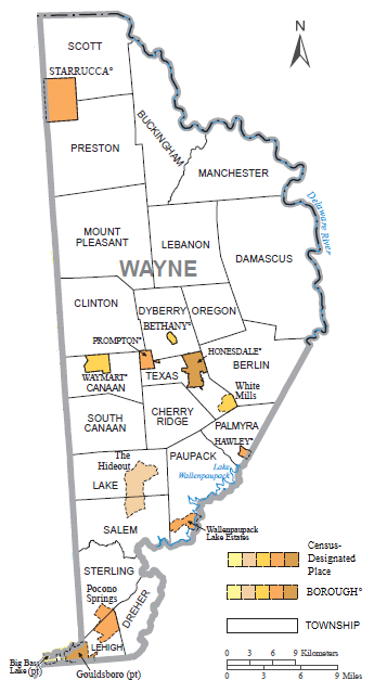 A map of Wayne County, Pennsylvania, showing the borders of the townships, boroughs, and census-designated places contained within it, edited from the original 2010 census map. Original image included Lackawanna, Susquehanna, and Wyoming Counties, and excluded the key (which came from page 2). The north arrow and the scale have been moved.